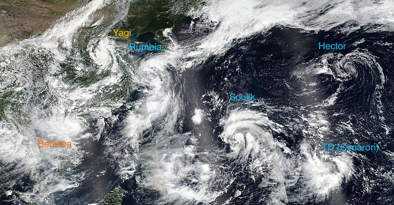 File:Bebinca, Yagi, Rumbia, Leepi, Soulik, Hector and JMA TD 27 2018-08-16.jpg revised with names.